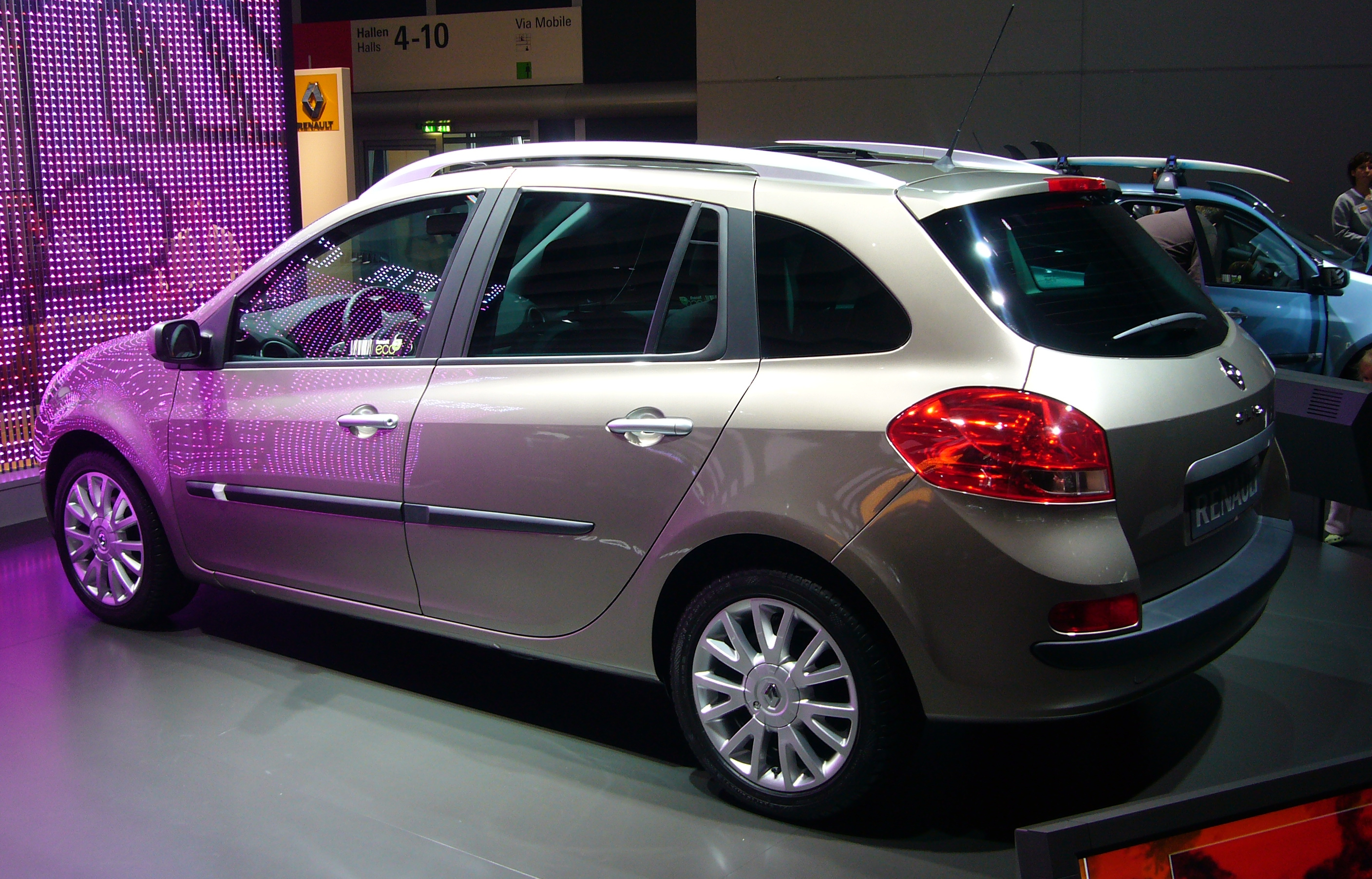 Renault Clio Estate at IAA Frankfurt 2007